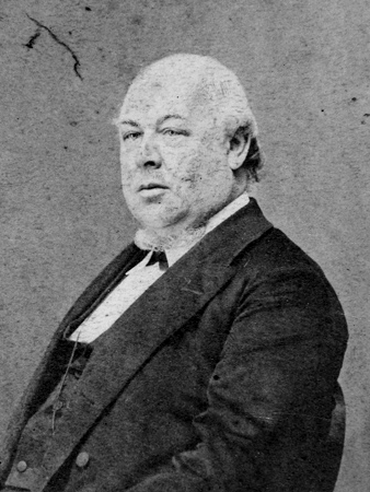 Estonian clergyman Woldemar Hansen (1823-1881)